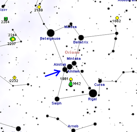 Orion Belt map